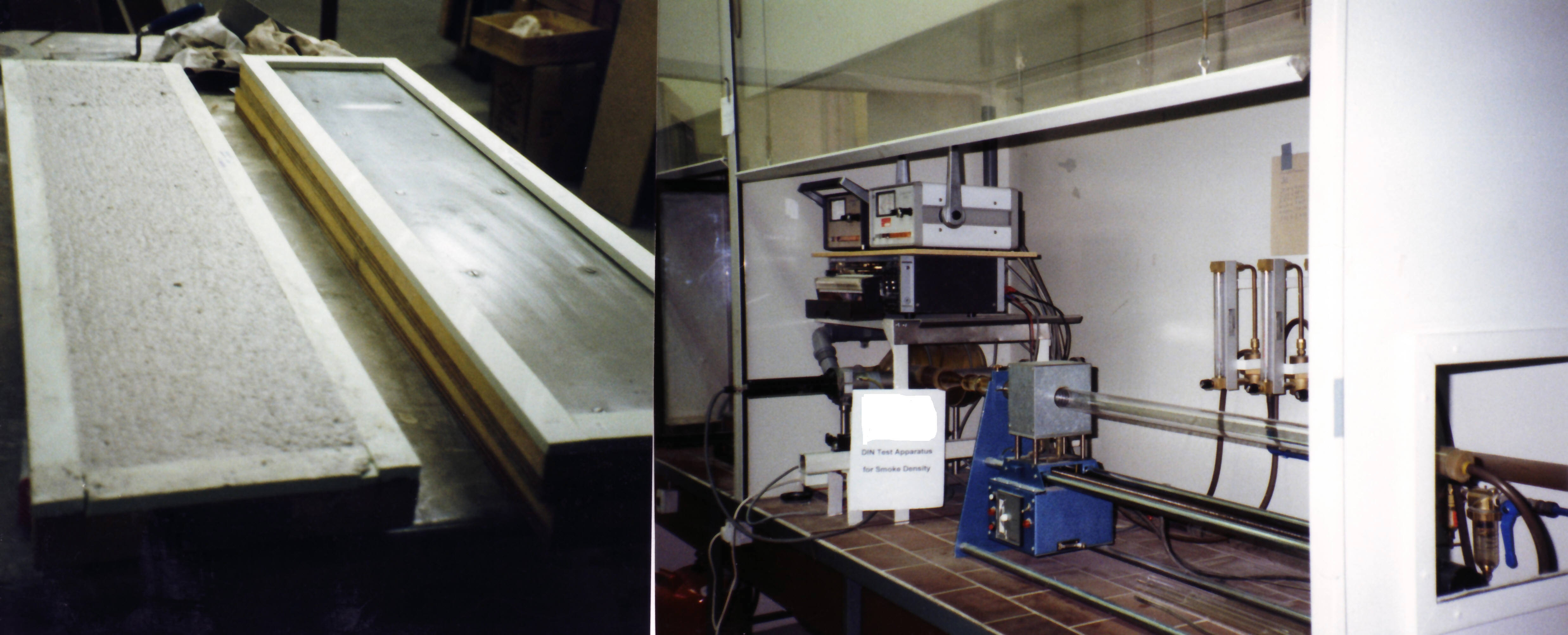 Fire test set up to test smoke density as per DIN 4102 on some spray fireproofing plaster samples with organic lightweight aggregate at Technische Universität Braunschweig, iBMB, Germany